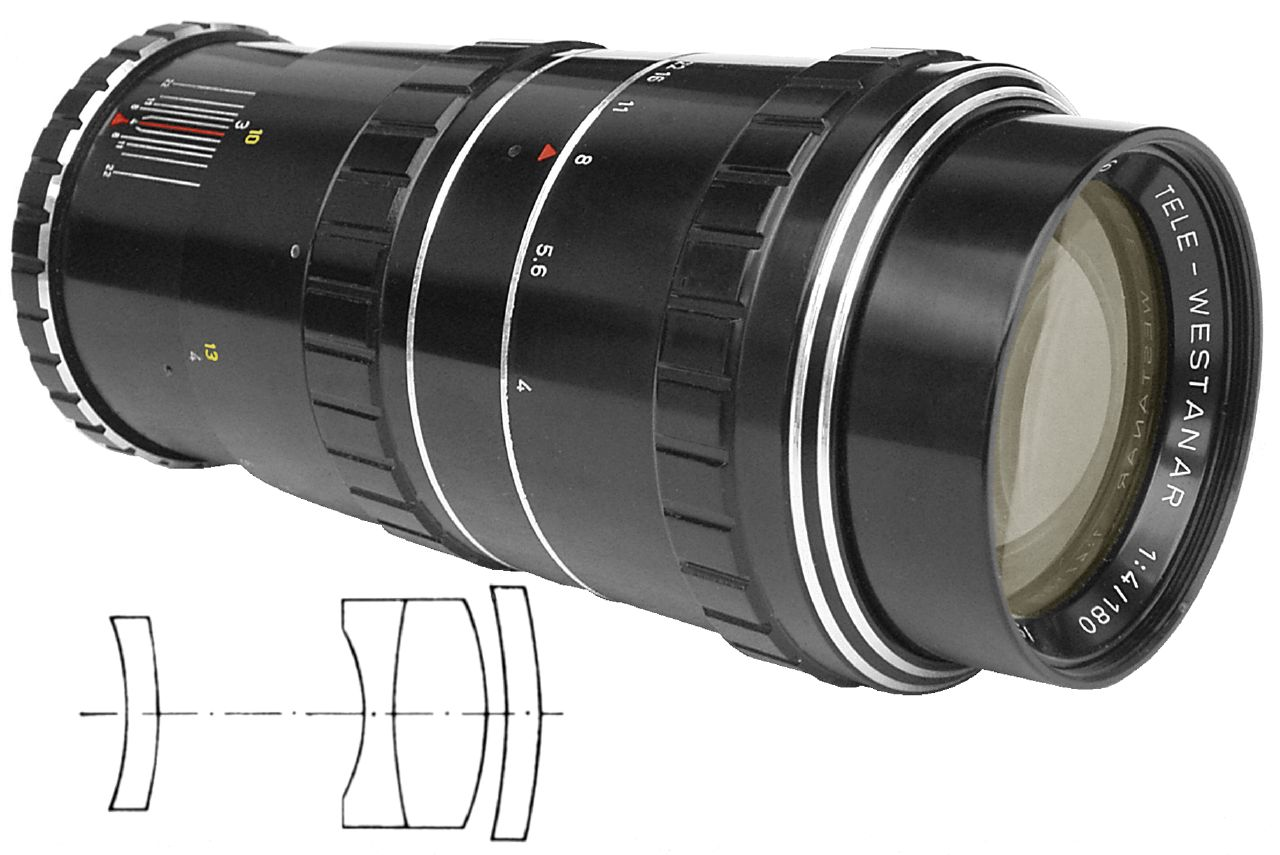 ISCO Tele-Westanar 1:4/180 (Exakta)